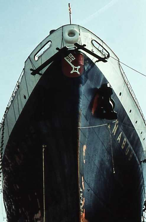 Painting on the bow of the German cargo ship Nabob in the harbor - 1959